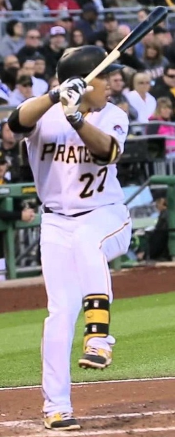 Jung-ho Kang hitting in a game